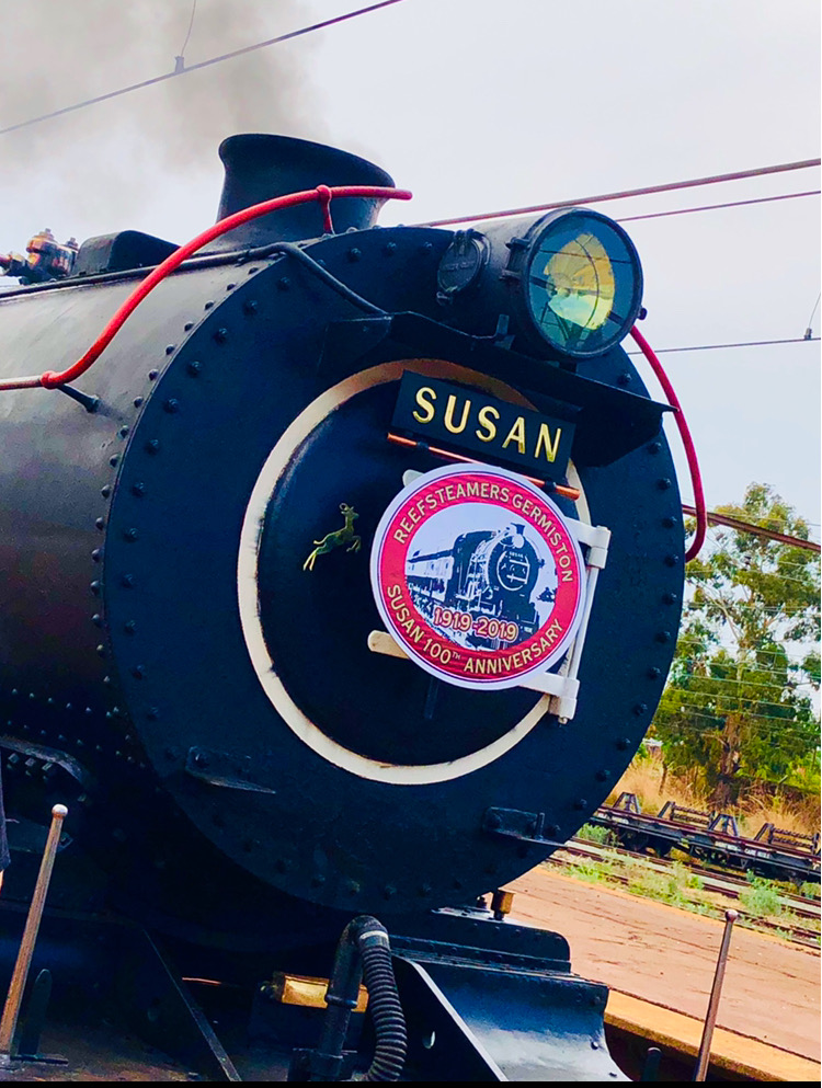 Suzan; on her 100th birthday and renaming ceremony, named from Suzan, to Suzan. This is an image with the theme "Africa on the Move or Transport" from: South Africa